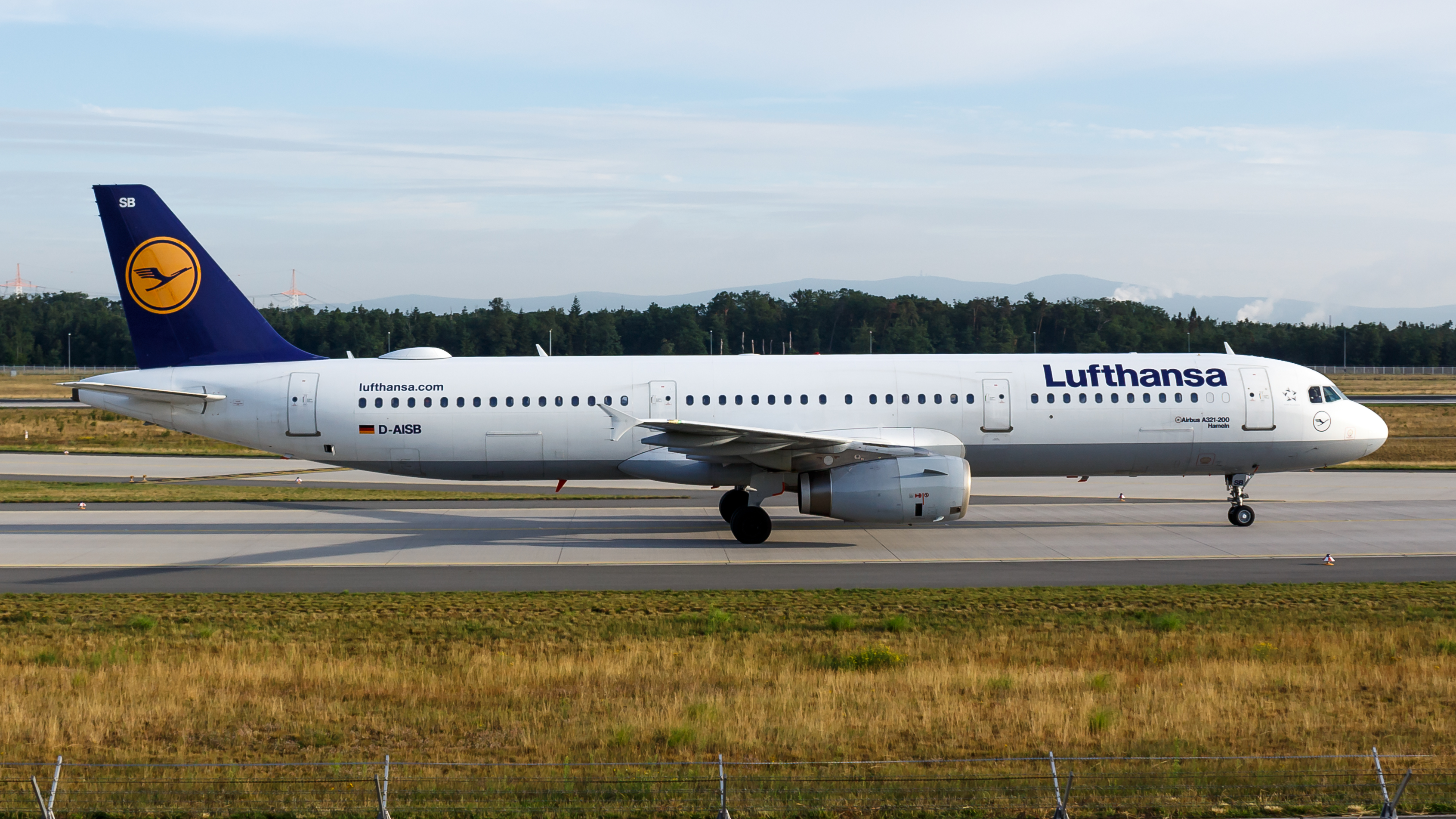 Lufthansa Airbus A321 at Frankfurt Airport